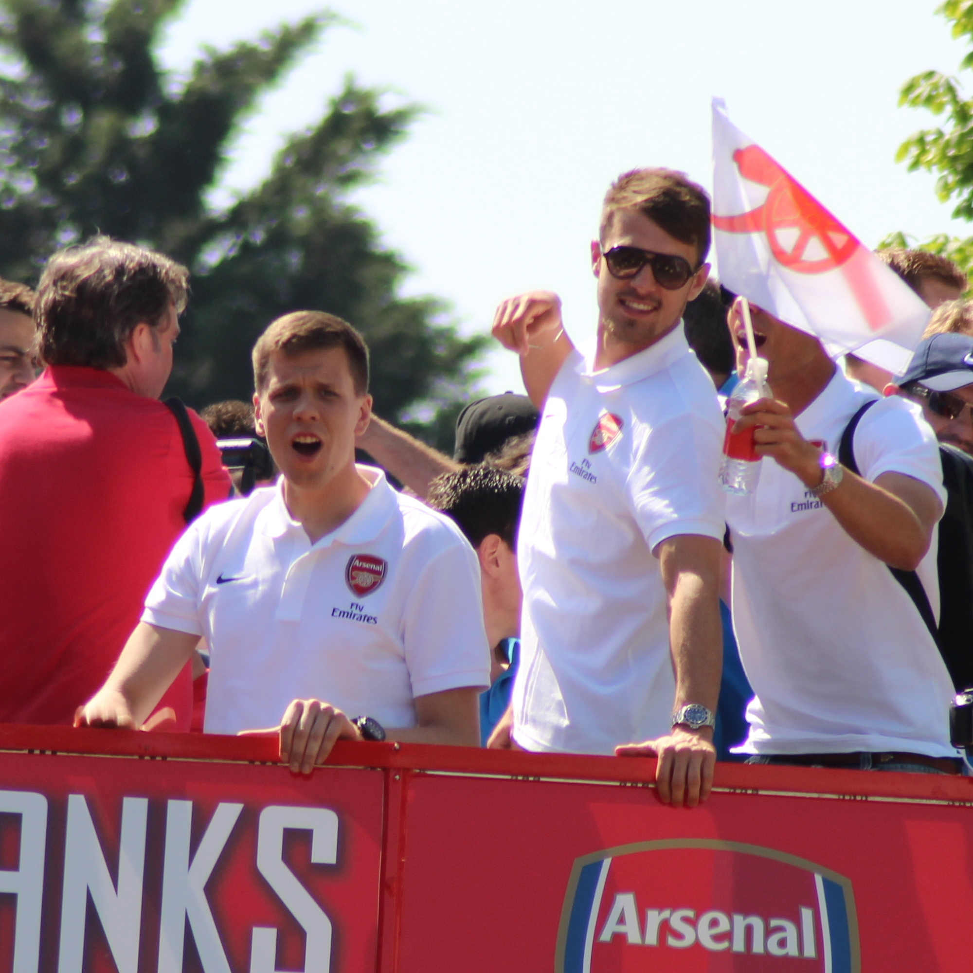 Wojciech Szczęsny and Aaron Ramsey of Arsenal celebrate the triumph of the FA cup on the open top bus through the borough of Islington.